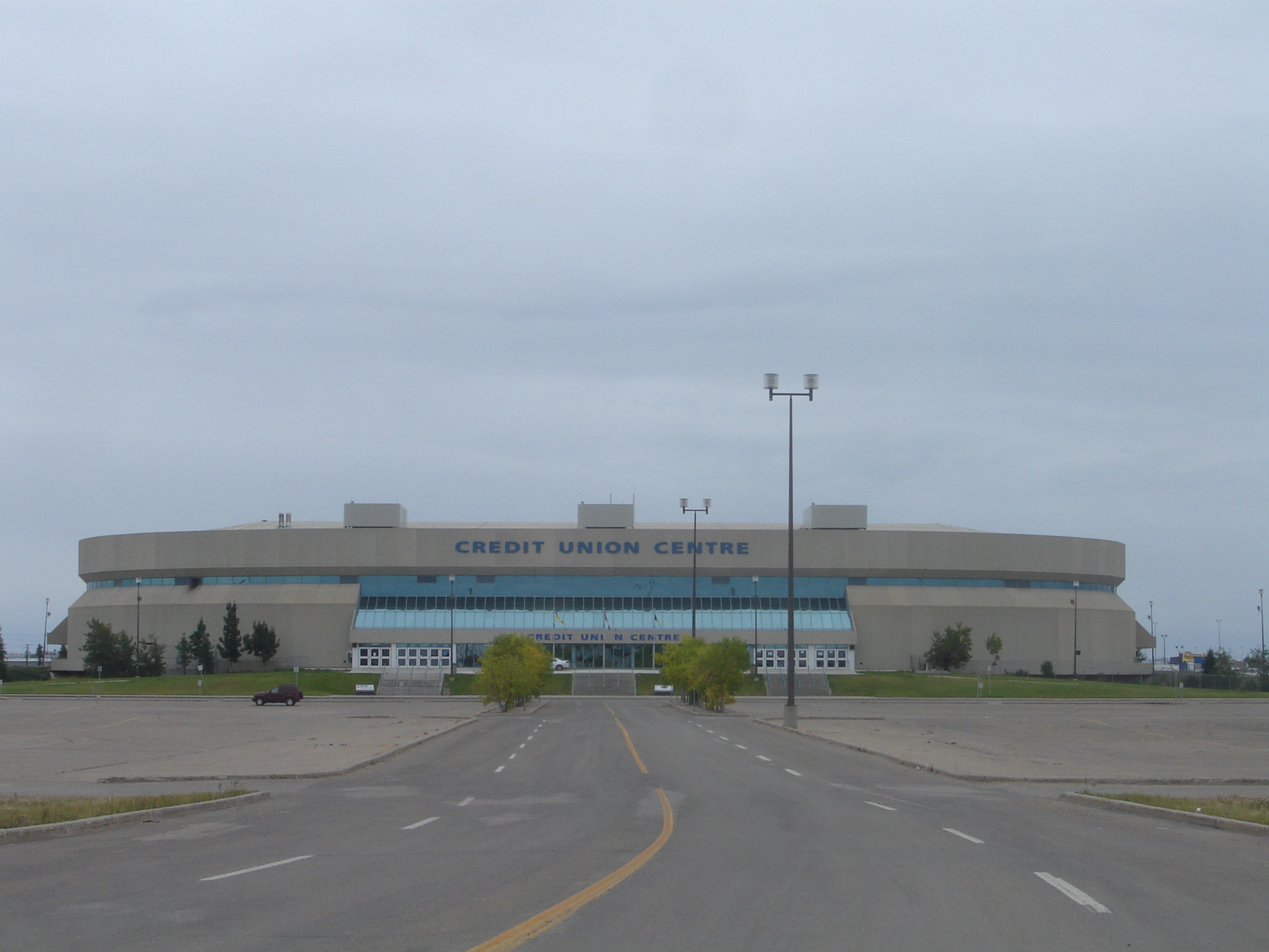 Agriplace Credit Union Centre Sask Place Saskatoon Saskatchewan Canada